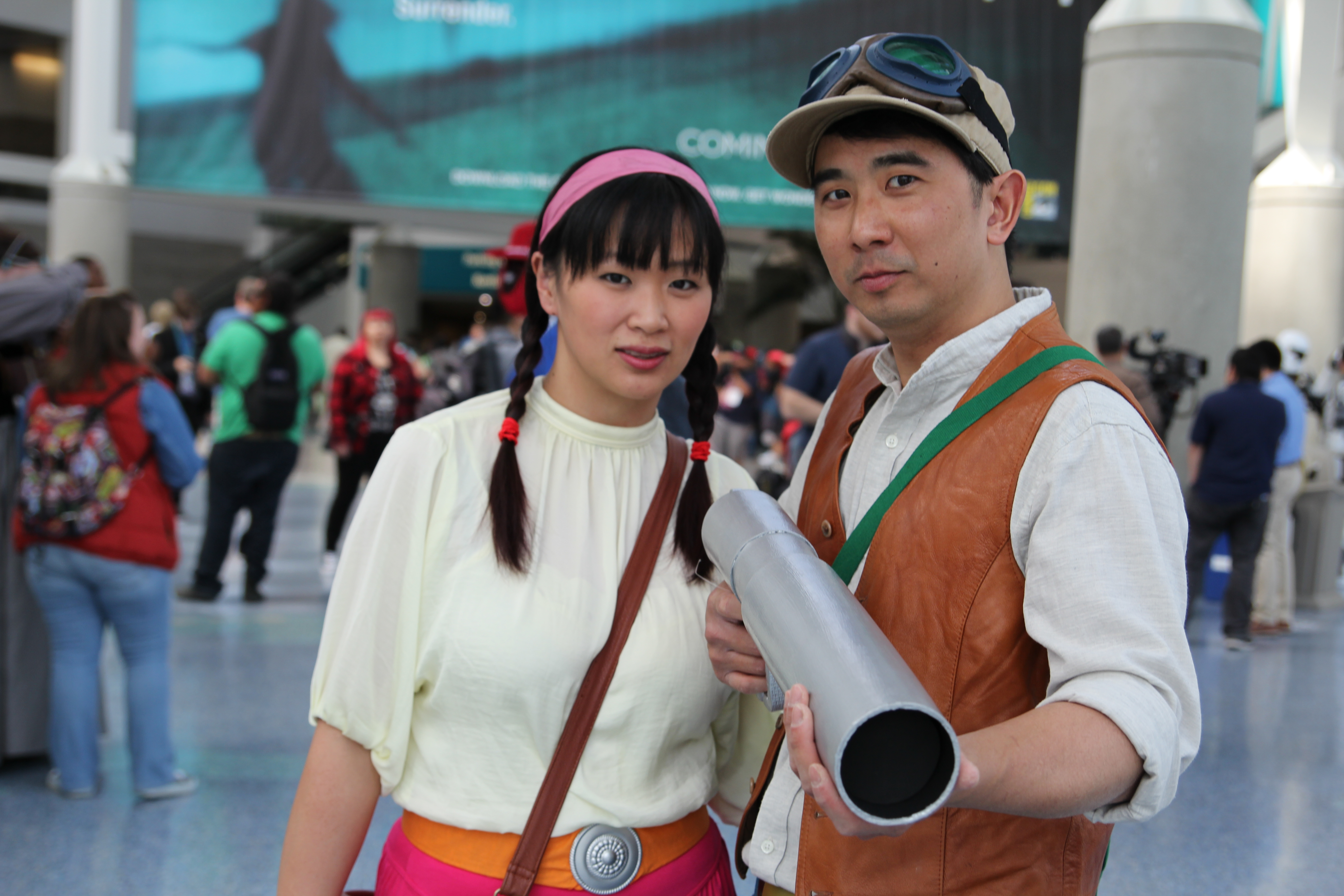 A cosplay of Sheeta [left] and Pazu [right] from Miyazaki's Laputa: Castle in the Sky Cosplay at WonderCon 2016.